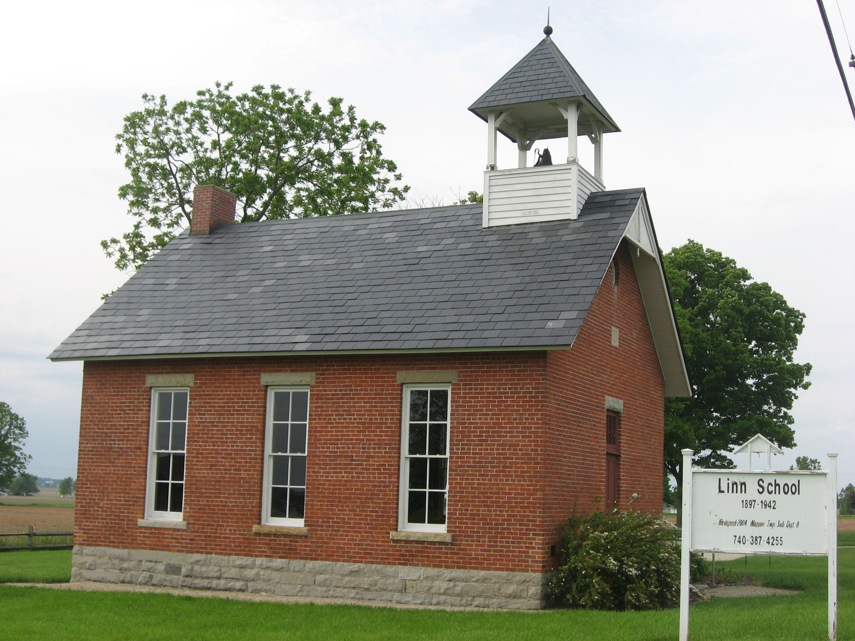 Southern side and rear of the Marion Township Sub-District No. 8 School, located at 2473 N. State Route 4 north of Marion in Marion Township, Marion County, Ohio, United States. Built in 1897, it is listed on the National Register of Historic Places.